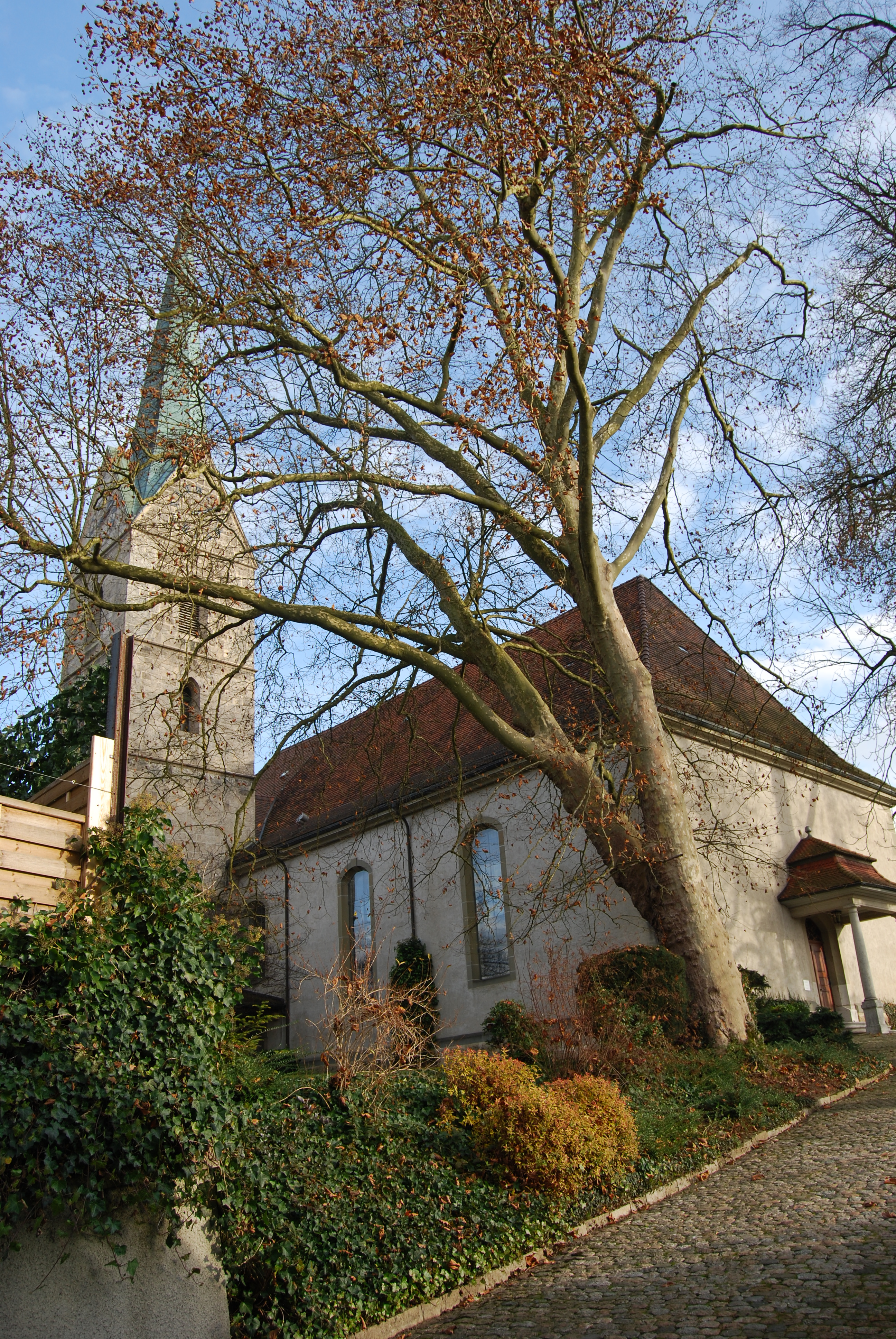 Protestant Church of Herzogenbuchsee, canton of Bern, Switzerland